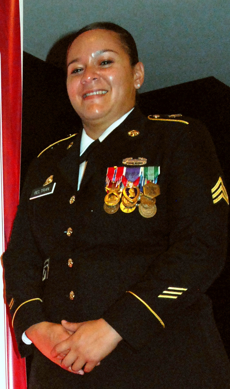 SGT Monica Beltran, ARNG